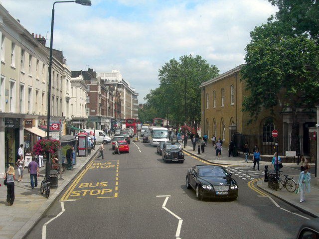 Kings Road SW3 This is a well known Chelsea shopping street. We are looking towards Sloane Square.